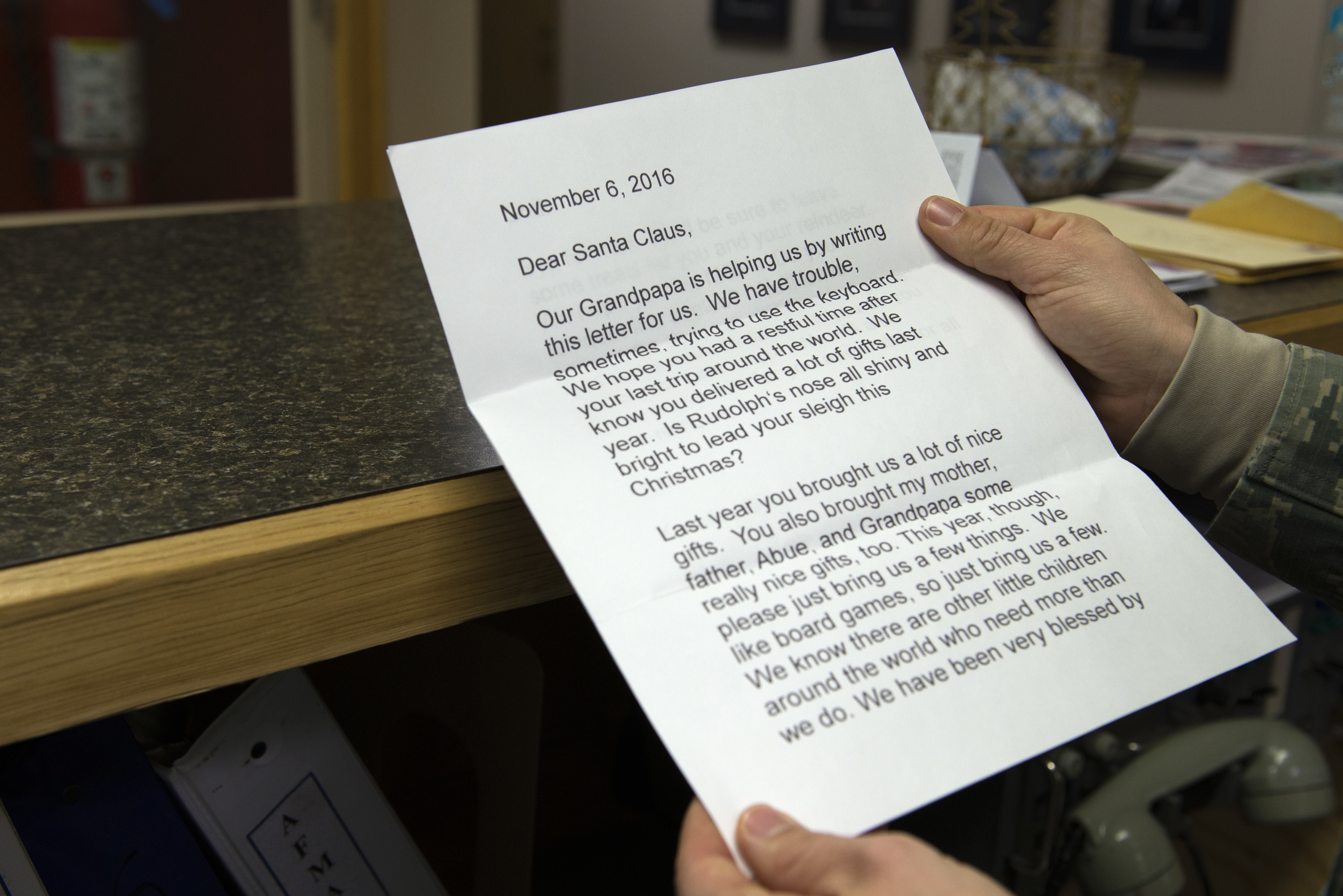 U.S. Air Force Airman 1st Class Lisa Rogers, a 354th Operations Support Squadron weather forecaster apprentice, holds a letter to Santa, Nov. 22, 2016, at Eielson Air Force Base, Alaska. Letters come from all over the world and the weather flight acts as Santa’s elves, sending letters back to children. (U.S. Air Force photo by Airman 1st Class Cassandra Whitman) Unit: 354th Fighter Wing DVIDS Tags: Santa Claus; Family; 354th Fighter Wing; 354 FW; 354th OSS; Santa's Mailbag